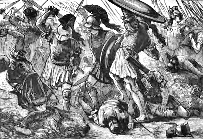 Battle of Chaereonea